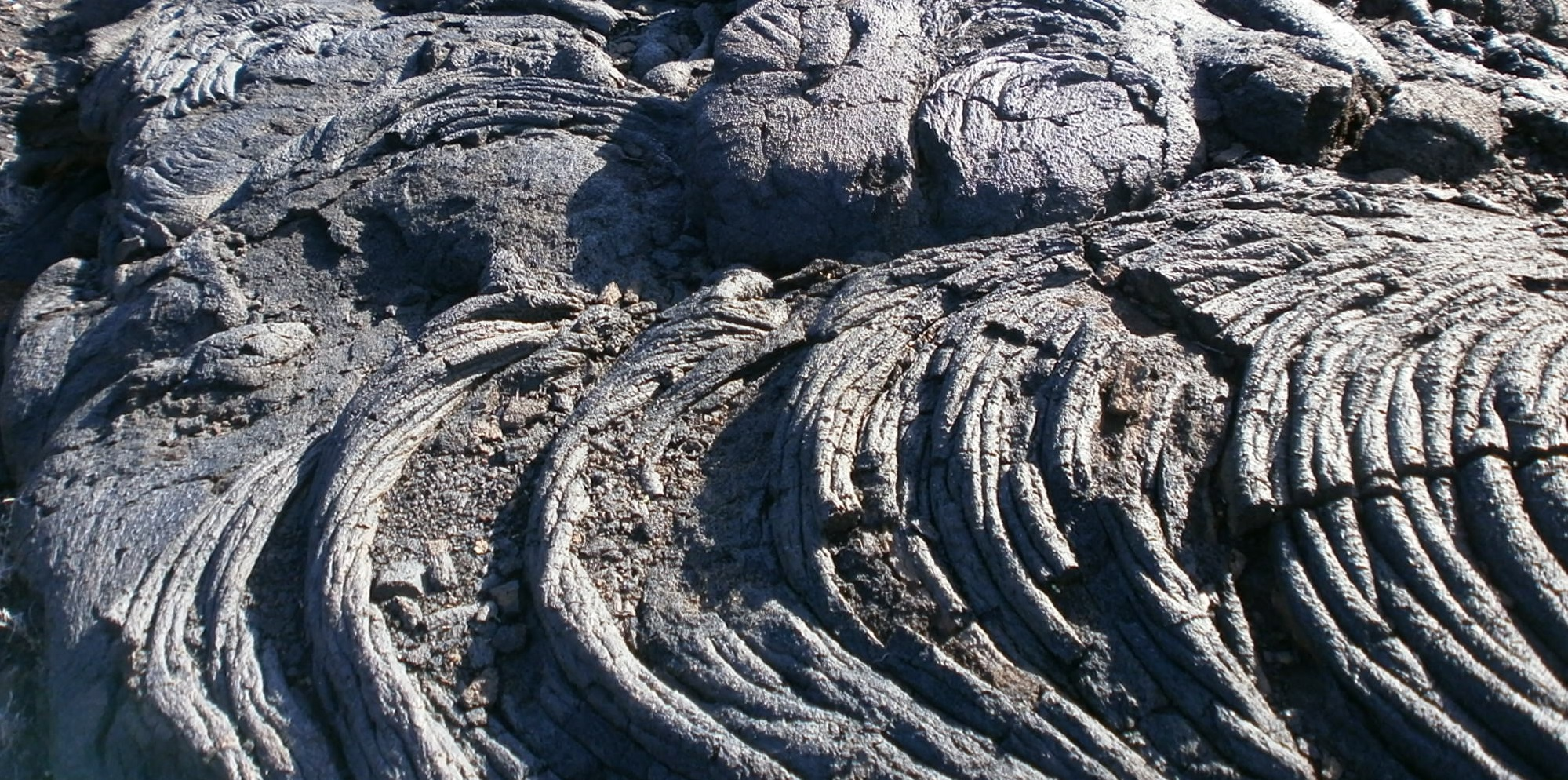 Pahoehoe lava on El Hierro in the Canary Islands, Spain.